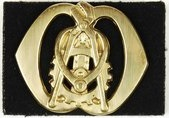 Beret badge Mechanical and Electrical Engineer Corps